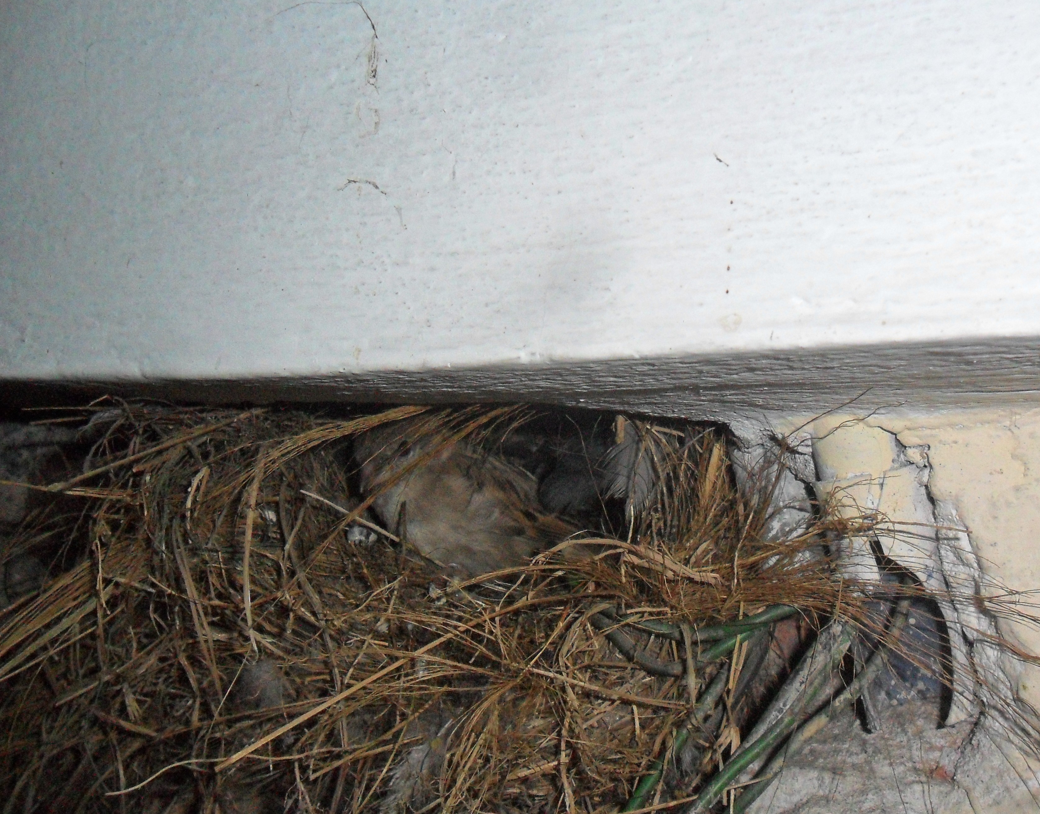 Sparrow in a broken ventilator